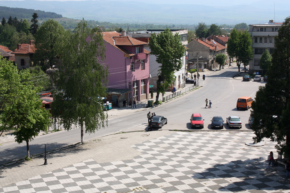 View of Dolna Banya central square from the Clock-tower